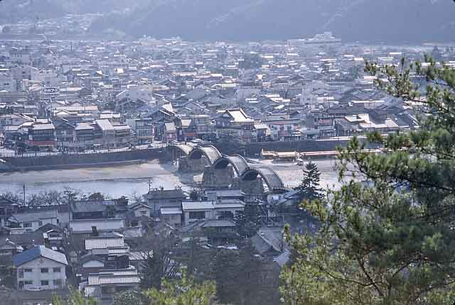 Kintai Bridge Iwakuni, Yamaguchi Yamaguchi prefecture Chugoku region Honsh? Japan I took this photograph and contribute it to the public domain.